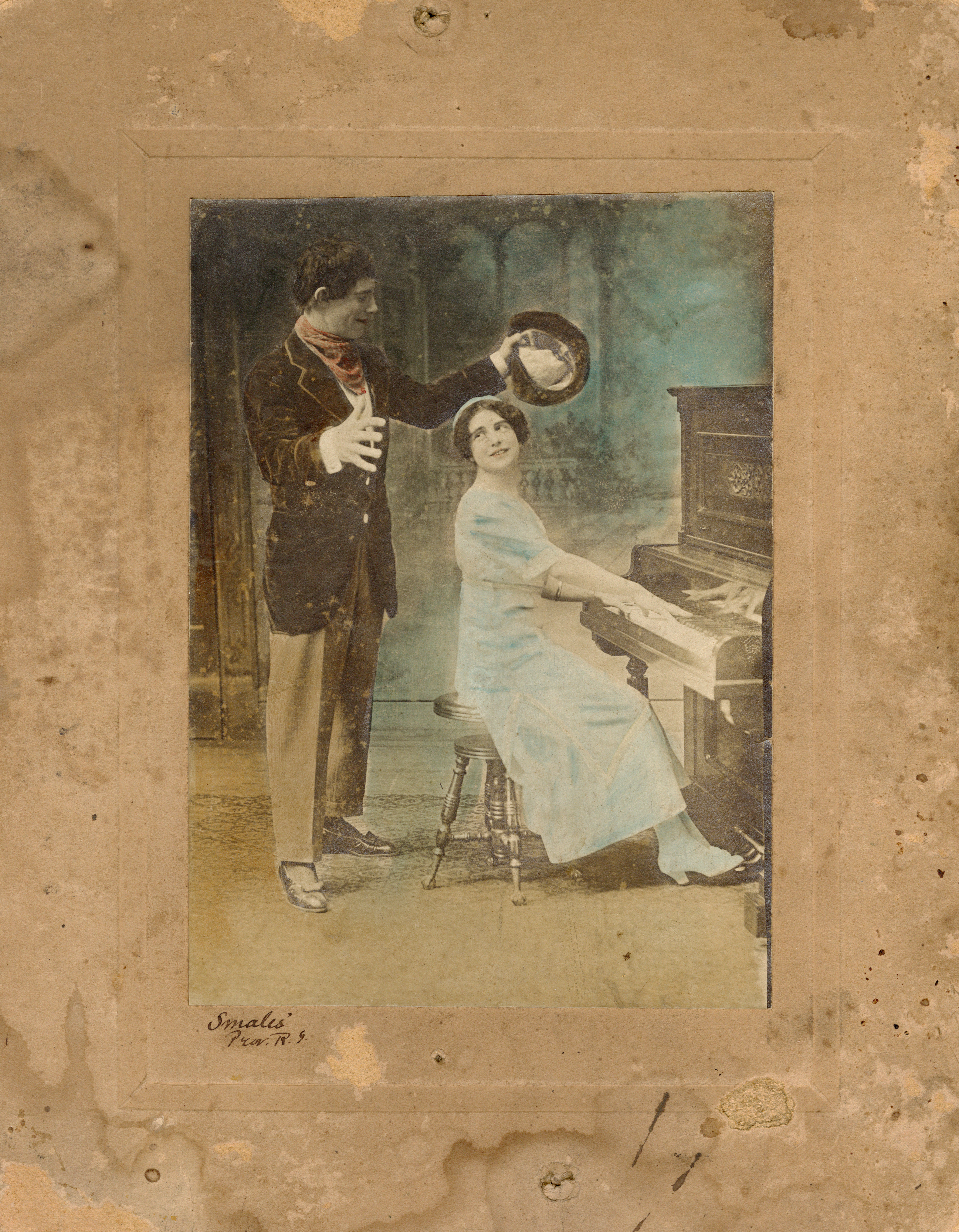 Early publicity photograph of vaudeville comedian Jack Kammerer, later known as Jack Cameron, and vaudeville artist, Edna Howland. Photo taken by Thomas Smales of Smales Studio at 489 Westminster Street, Providence, RI.